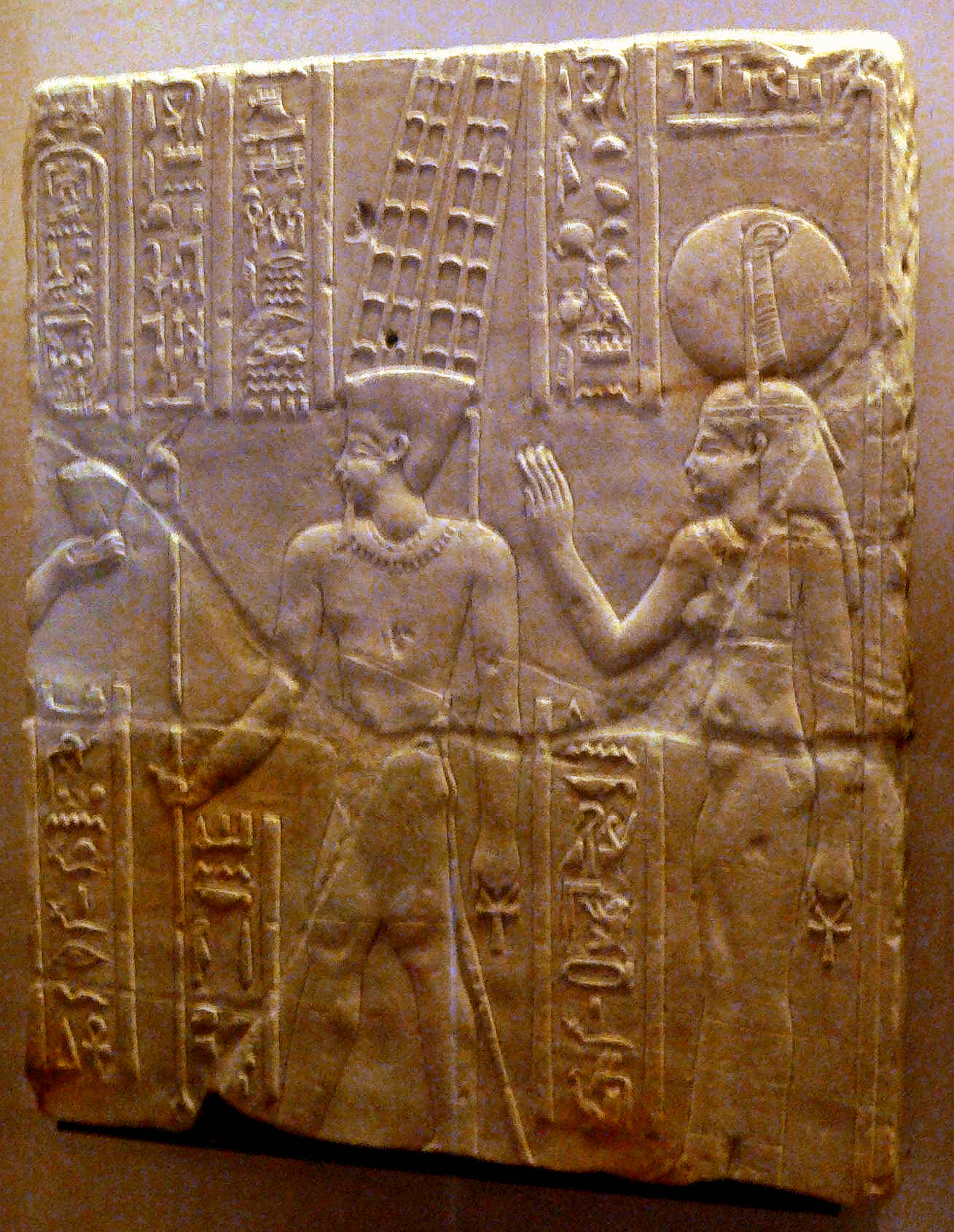 Amon-Ra and Maat recieving ointment from the king. Reign of Ptolemy VIII Physcon, 170 - 116 BCE. Sandstone, found in Karnak